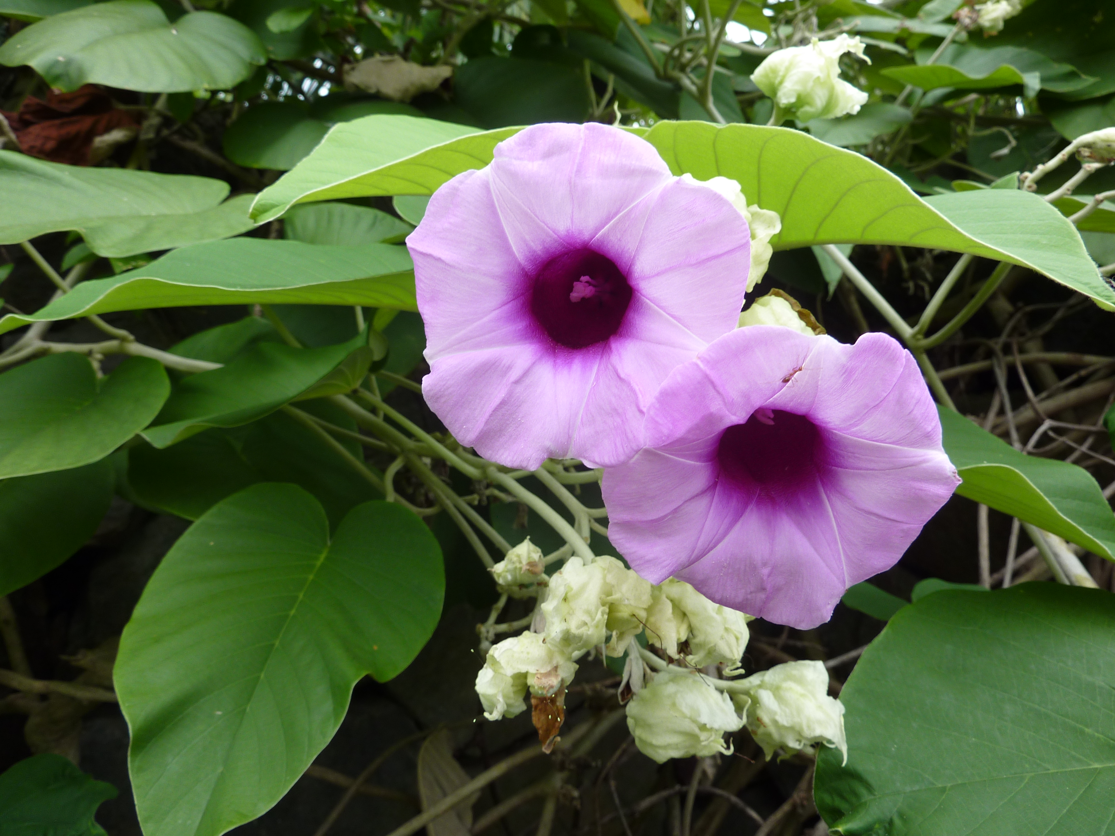 Flower of the elephant creeper (Argyreia nervosa).